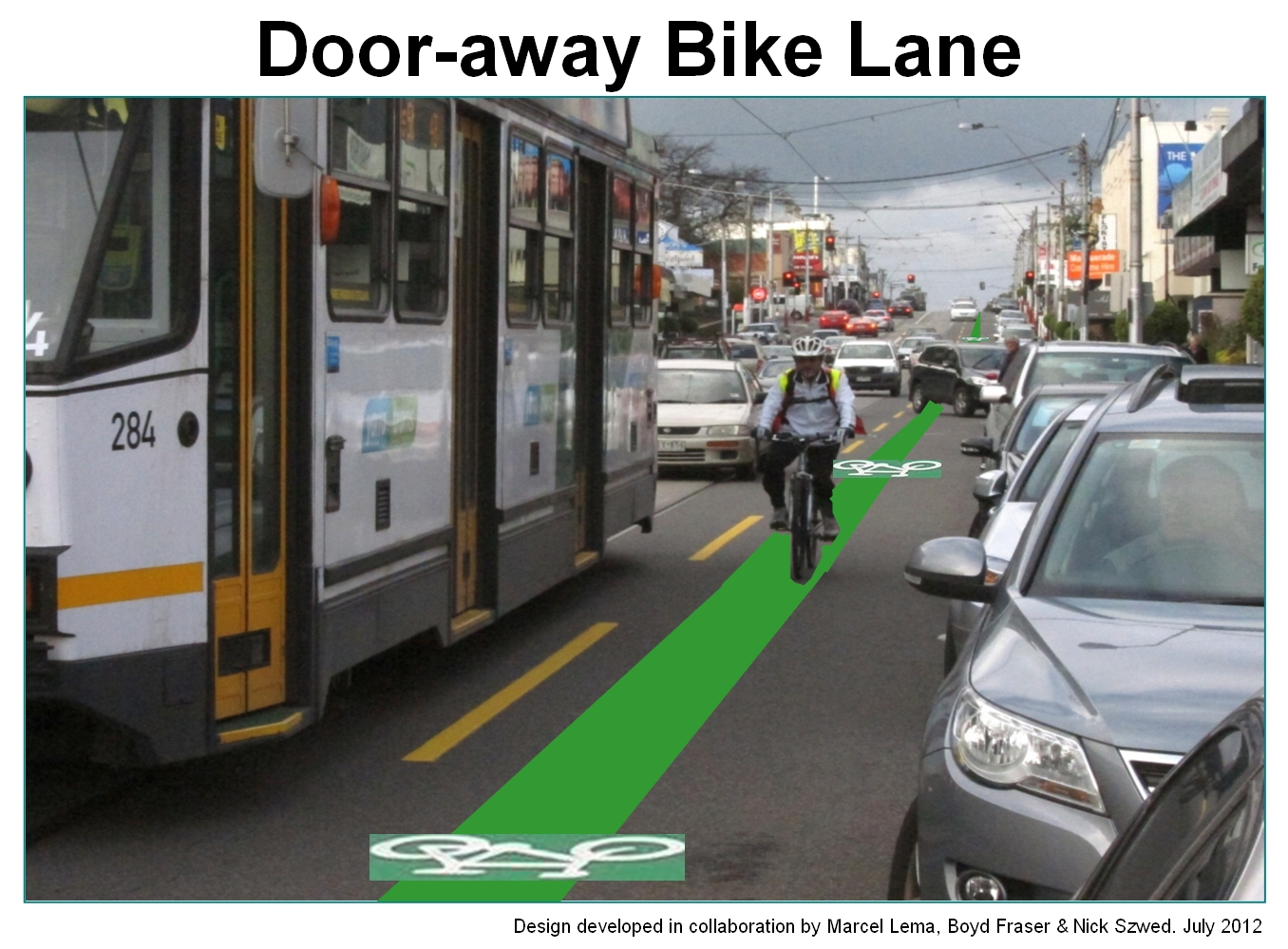 The "Door-away" Bike Lane developed by Marcel Lema, Boyd Fraser & Nick Szwed to help position cyclists in a location outside the door zone, to would minimise the likelihood of a dooring incident (an incident where a cyclist is injured by a motorist opening their door).